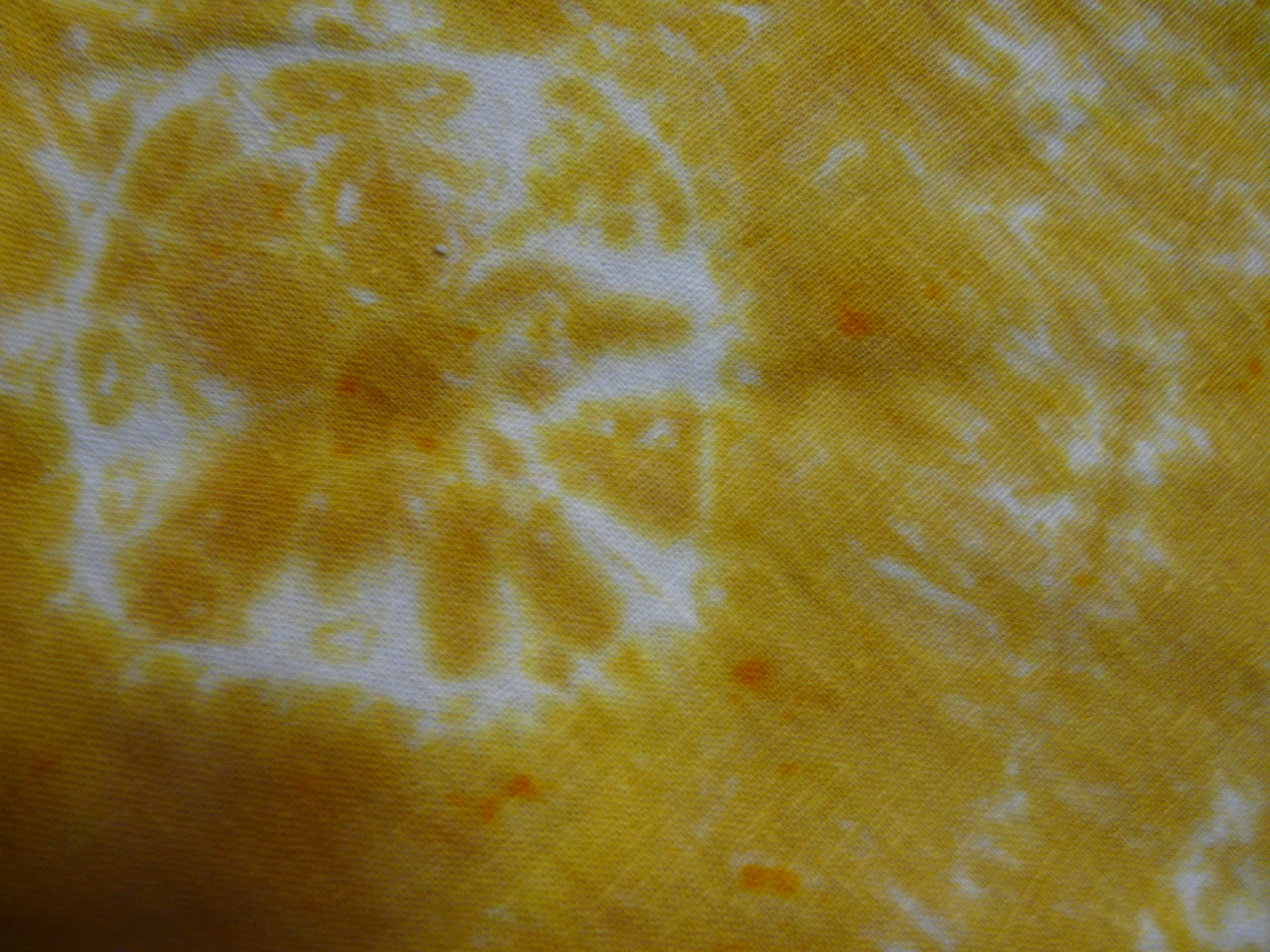 shibori on linen